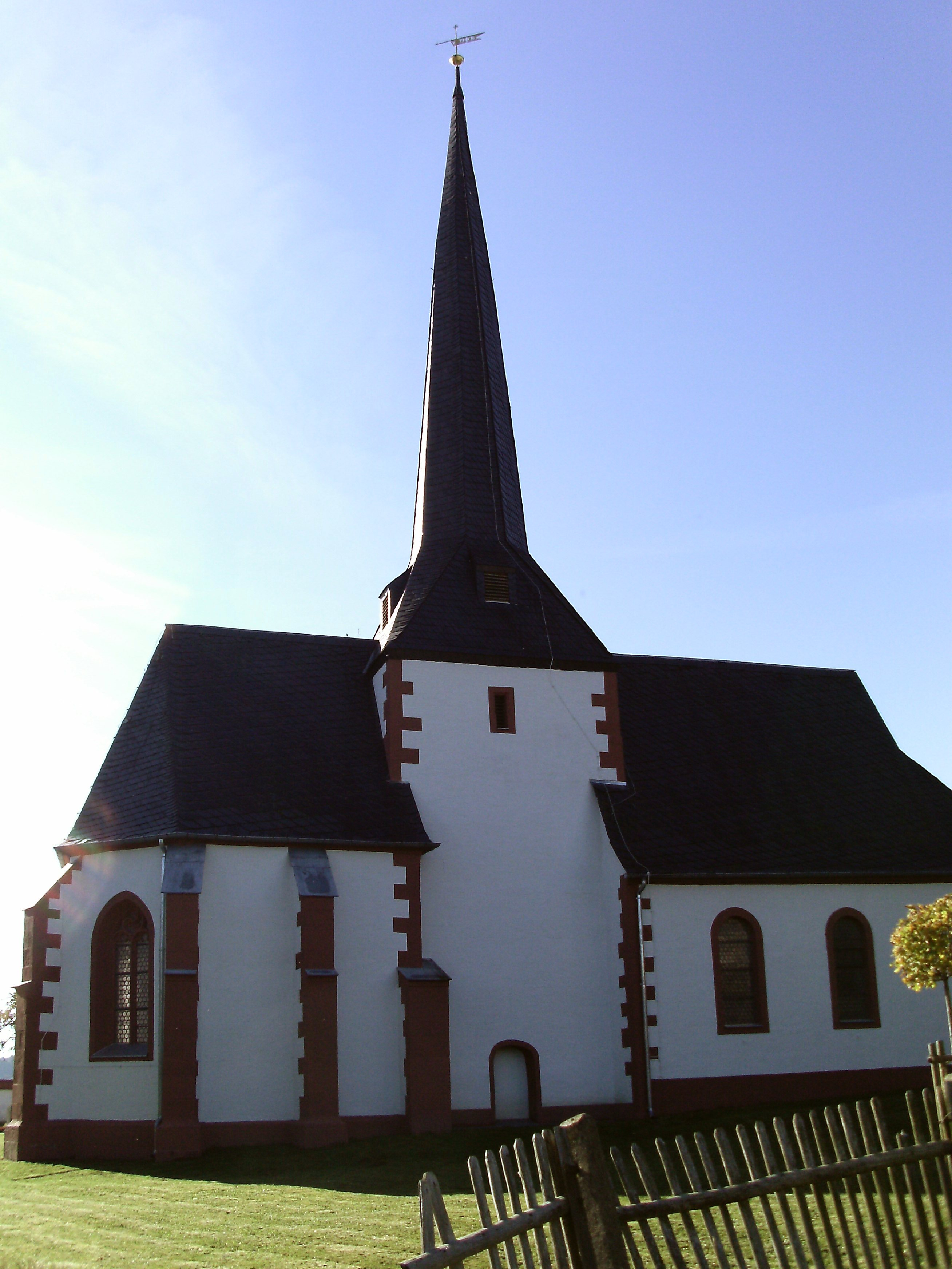 Frauendorf church (Frohburg, Leipzig district, Saxony)